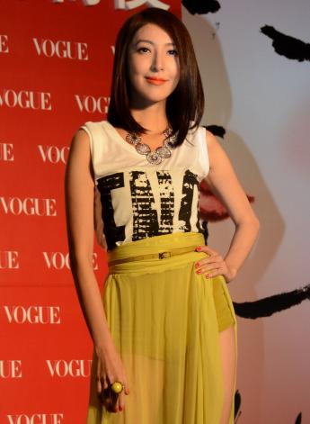 Cheryl Yang